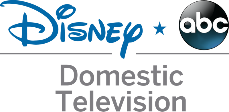 Logo for Disney-ABC Domestic Television since September